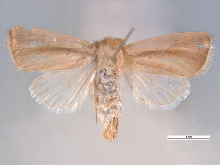 Sesemia inferens dorsal view Bubia, PNG, Oct.1968, C.S. Li, reared from Rice stem.